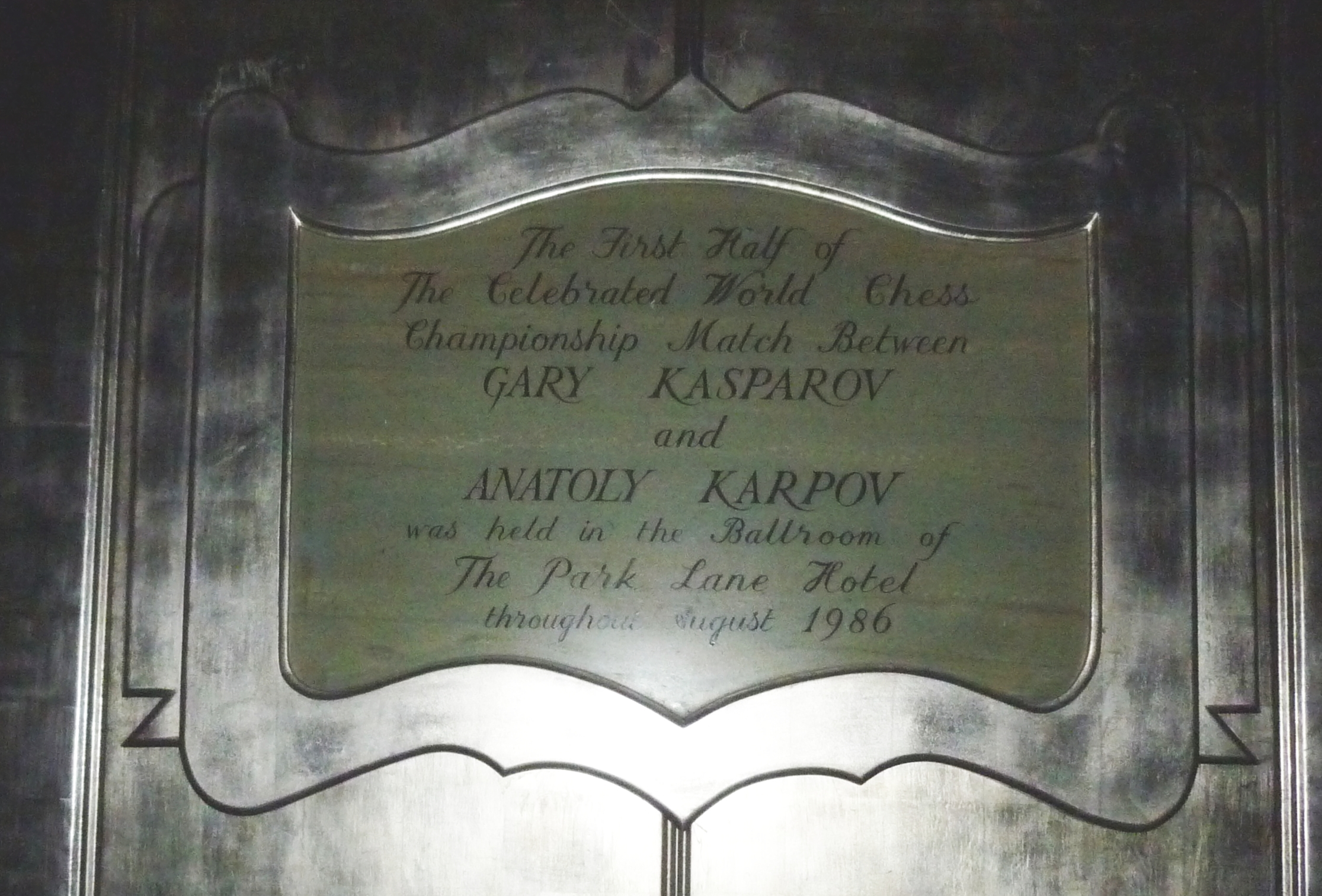 Plaque at the Park Lane Hotel in London commemorating the first half of World Chess Championship 1986. Photo was taken at my request and I own the rights on it. Permission for publication was granted by the Chief of Duty at Park Lane Hotel. This is a part of the original photo that was digitally enhanced (brightness and contrast were added) to make the plaque better readable.